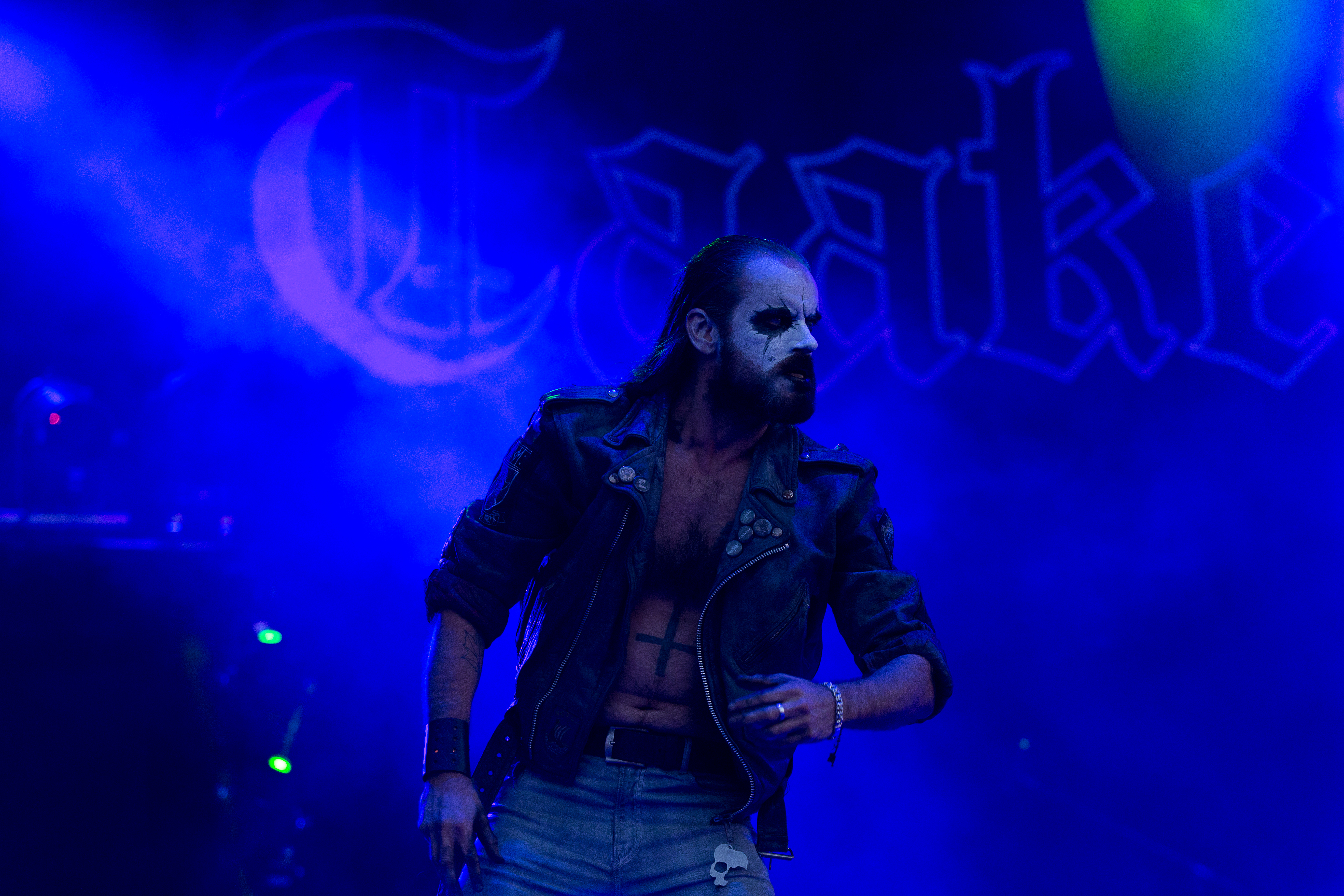 The Norwegian extreme metal band Taake at the Party.San Metal Open Air 2016 in Obermehler-Schlotheim/Germany.